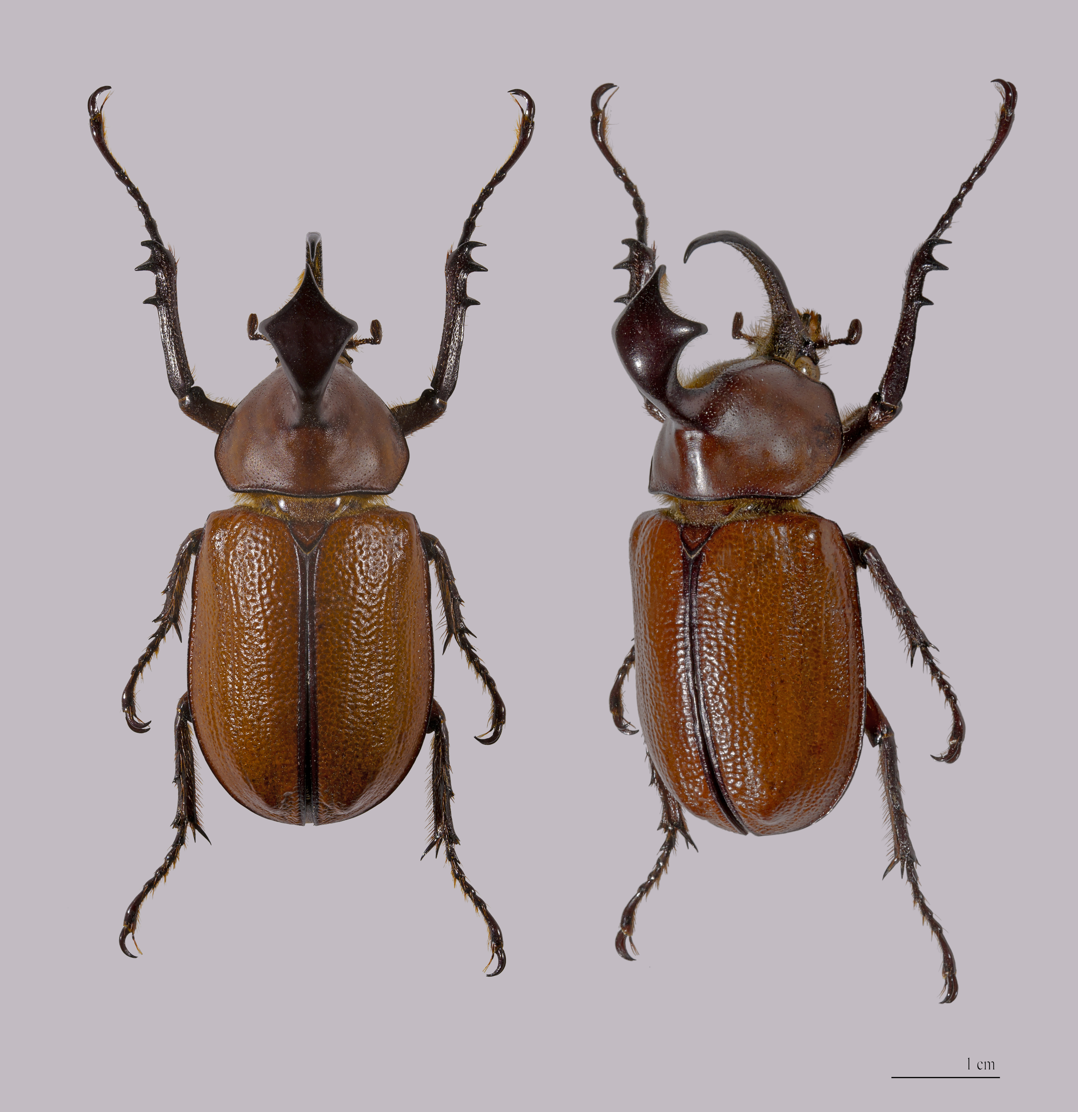 Male specimen Locality: Carpich, Huanaco, Peru